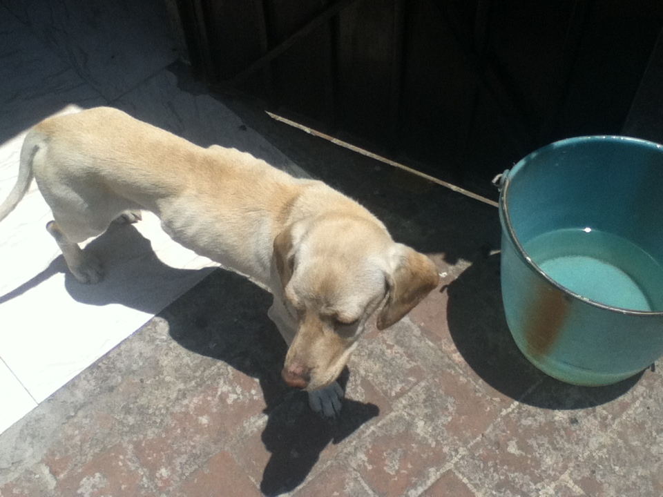 Canelo fue abandonado, esta foto fue tomada cuando una amiga lo encontró y lo ciudó hasta su recuperación